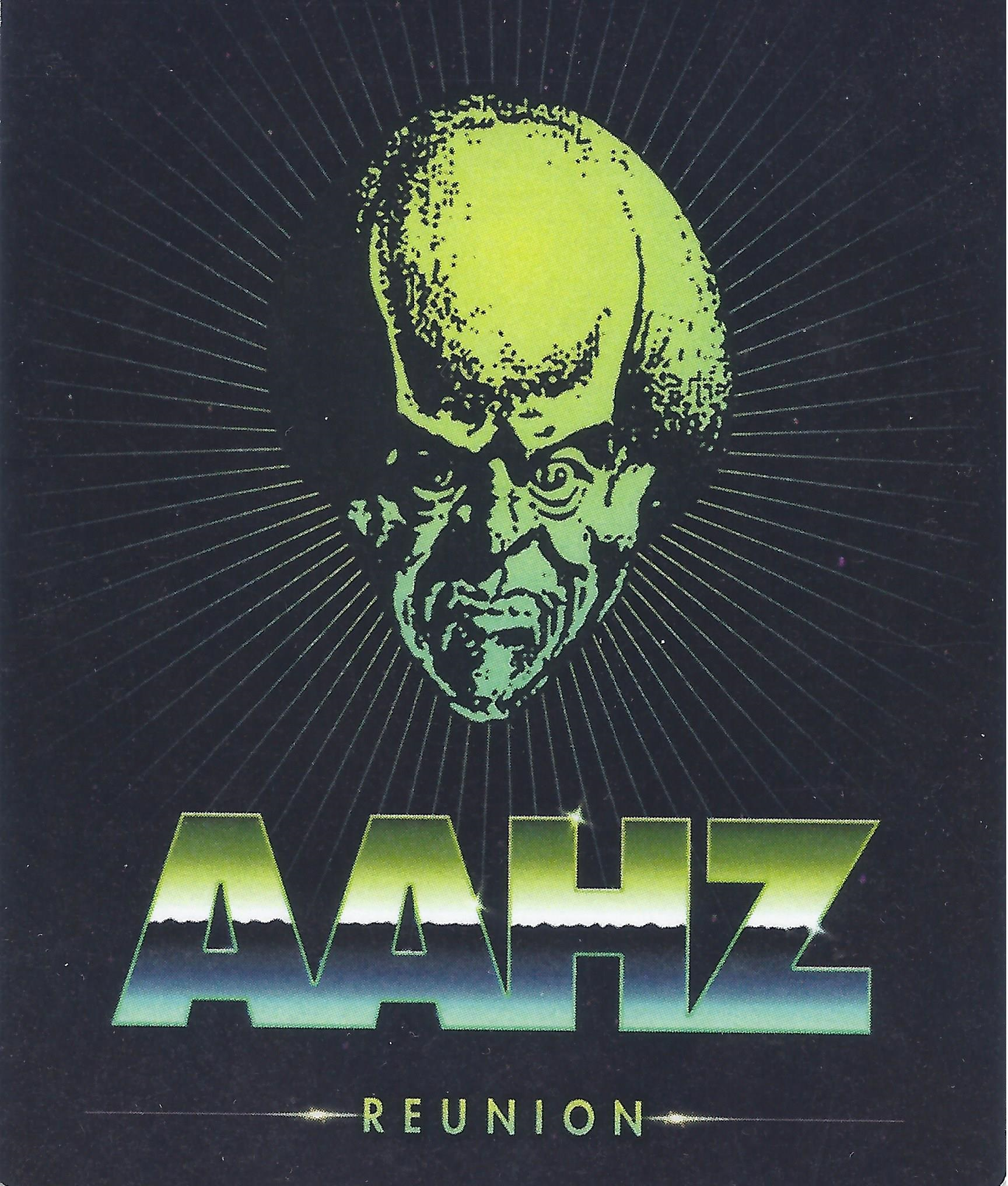 This is a scan of promotional material for the November 23, 2016 AAHZ reunion at the Beacham Theatre.